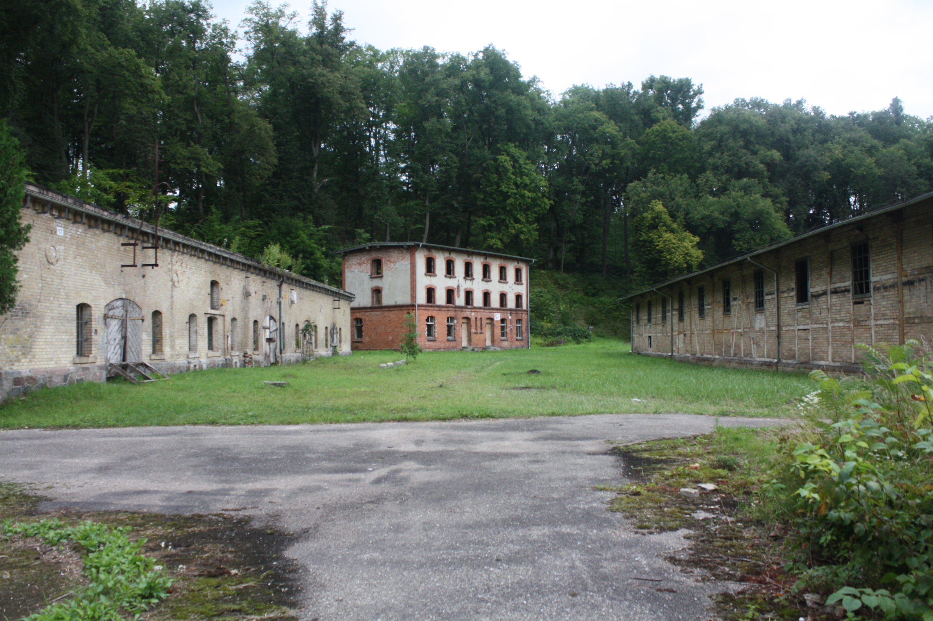 This photo of Warmian-Masurian Voivodeship was taken during Wikiexpedition 2012 set up by Wikimedia Polska Association. You can see all photographs in category Wikiekspedycja 2012. The making of this document was supported by Wikimedia Polska.